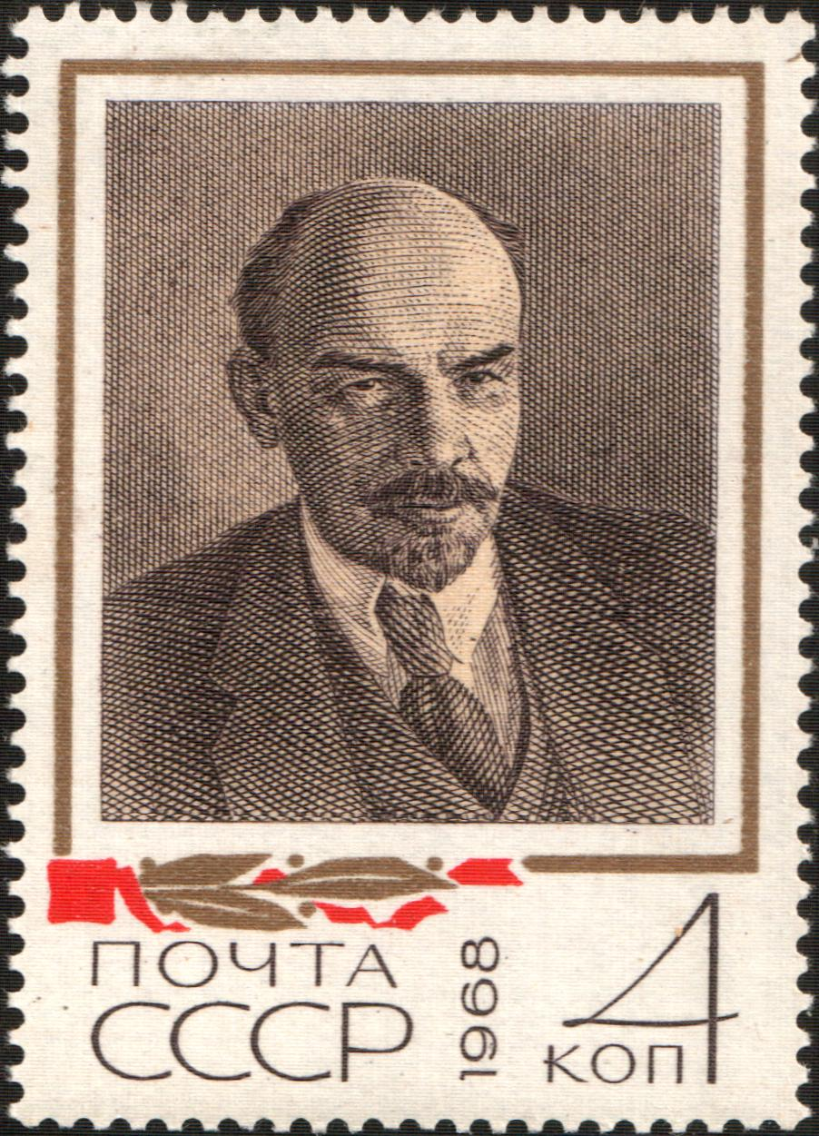 USSR stamp: Fullface Portrait of Lenin, Petrograd, January 1918 (Photo of Moshe Nappelbaum). Series: 98th Anniversary of Birth of Vladimir Lenin. Lenin in Documentary Photography